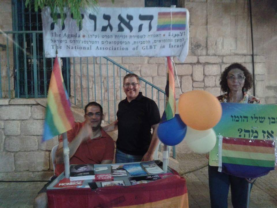 Pride House' s booths in Beer Sheva, with local activists, 2011